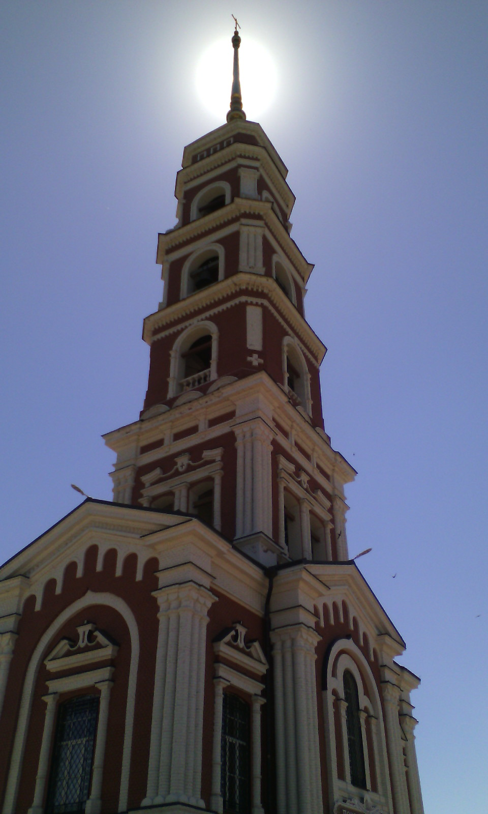 Church of the Intercession of the Holy Mother (Church of Pokrov), Gorky St., Saratov